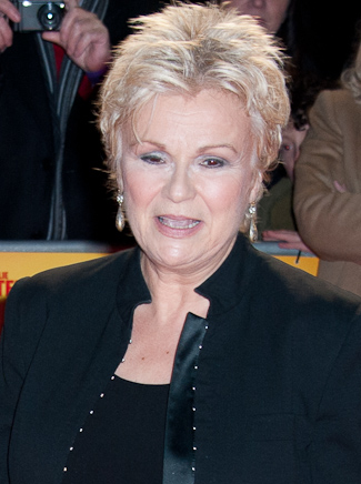 The Harry Hill Movie - Julie Walters-1